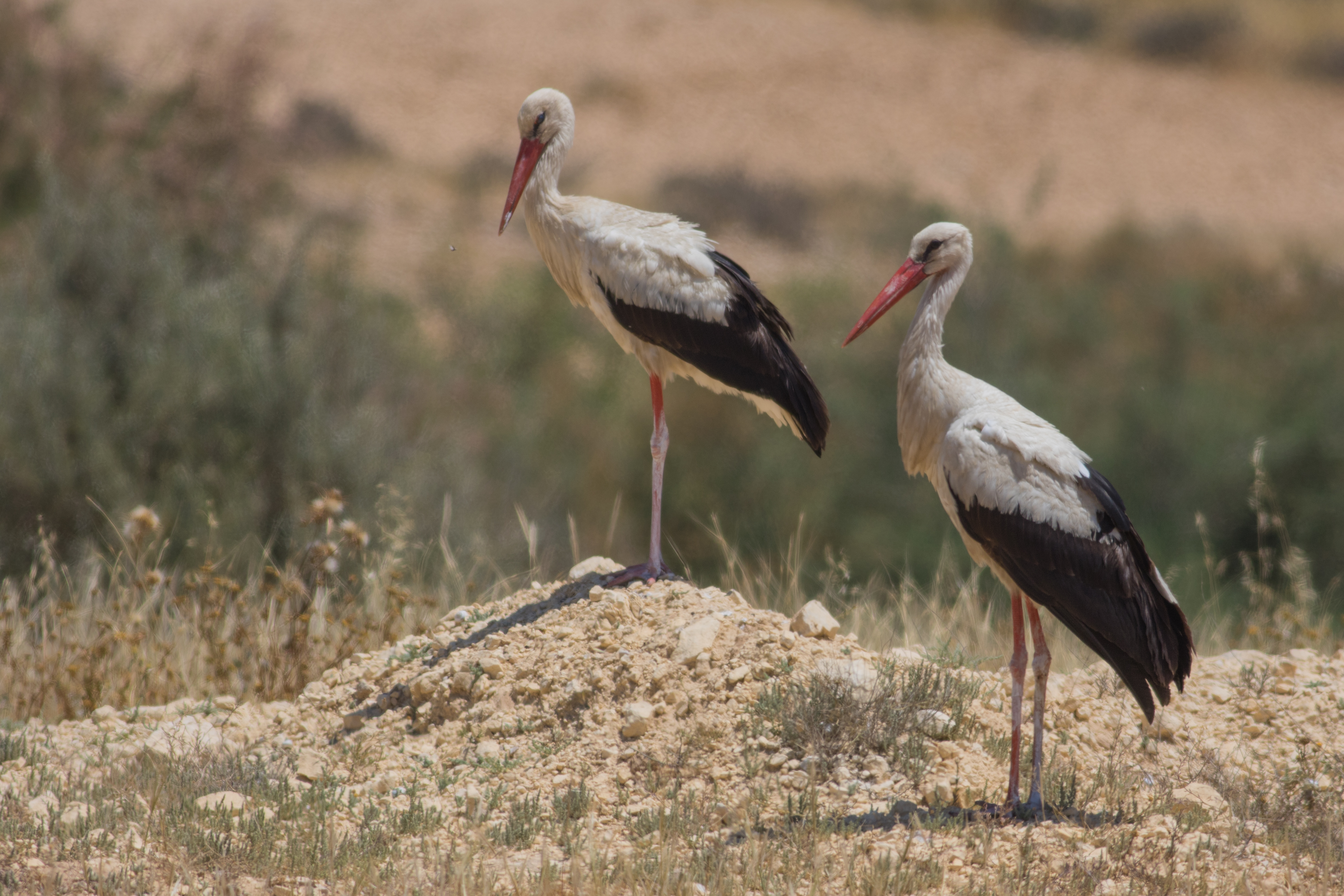 white stork (Ciconia ciconia), Israel. Its knees and lower legs are a whitish colour due to being covered by bird guano - an example of thermoregulation by urohidrosis.